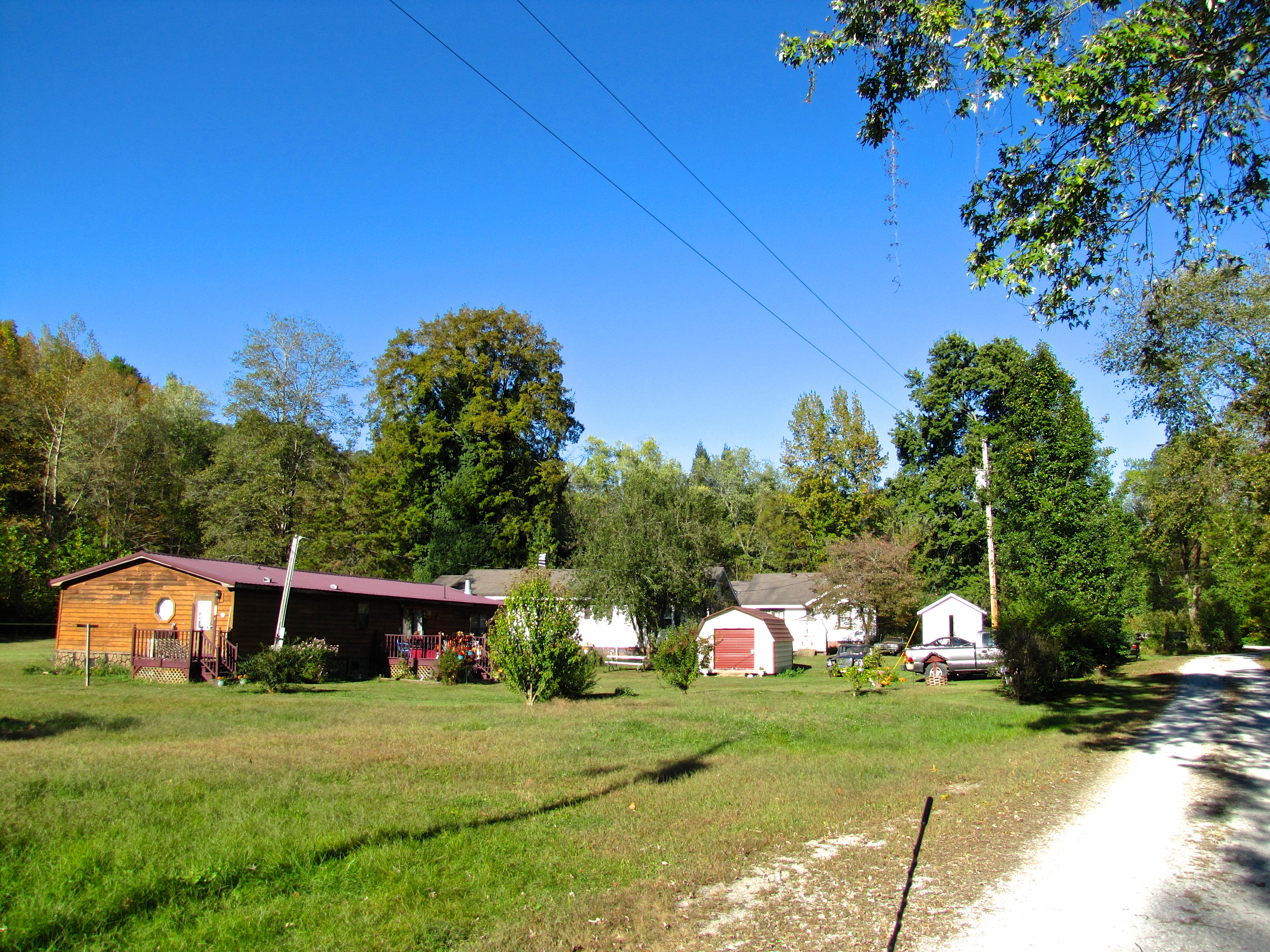 Houses in the Pruden community of northern Claiborne County, Tennessee, United States. Pruden Road is on the right.